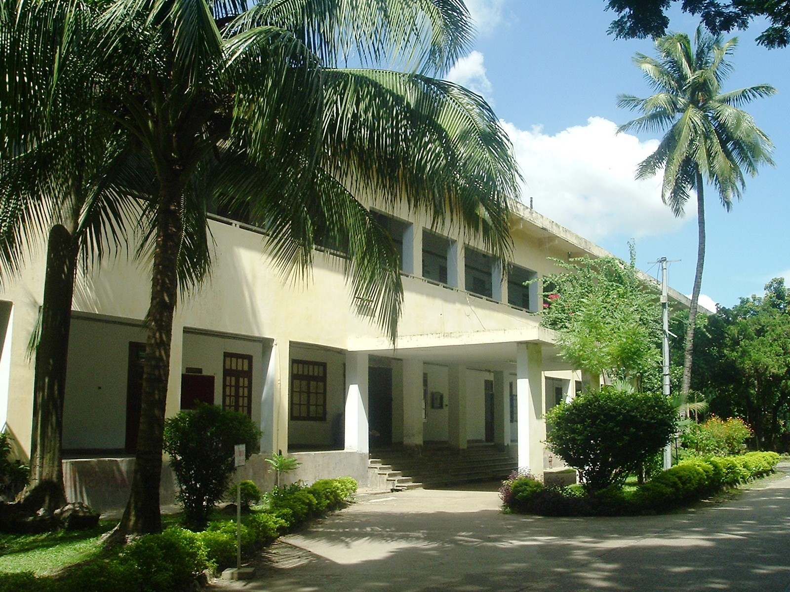 Old Academic Building,BUET, Dhaka.